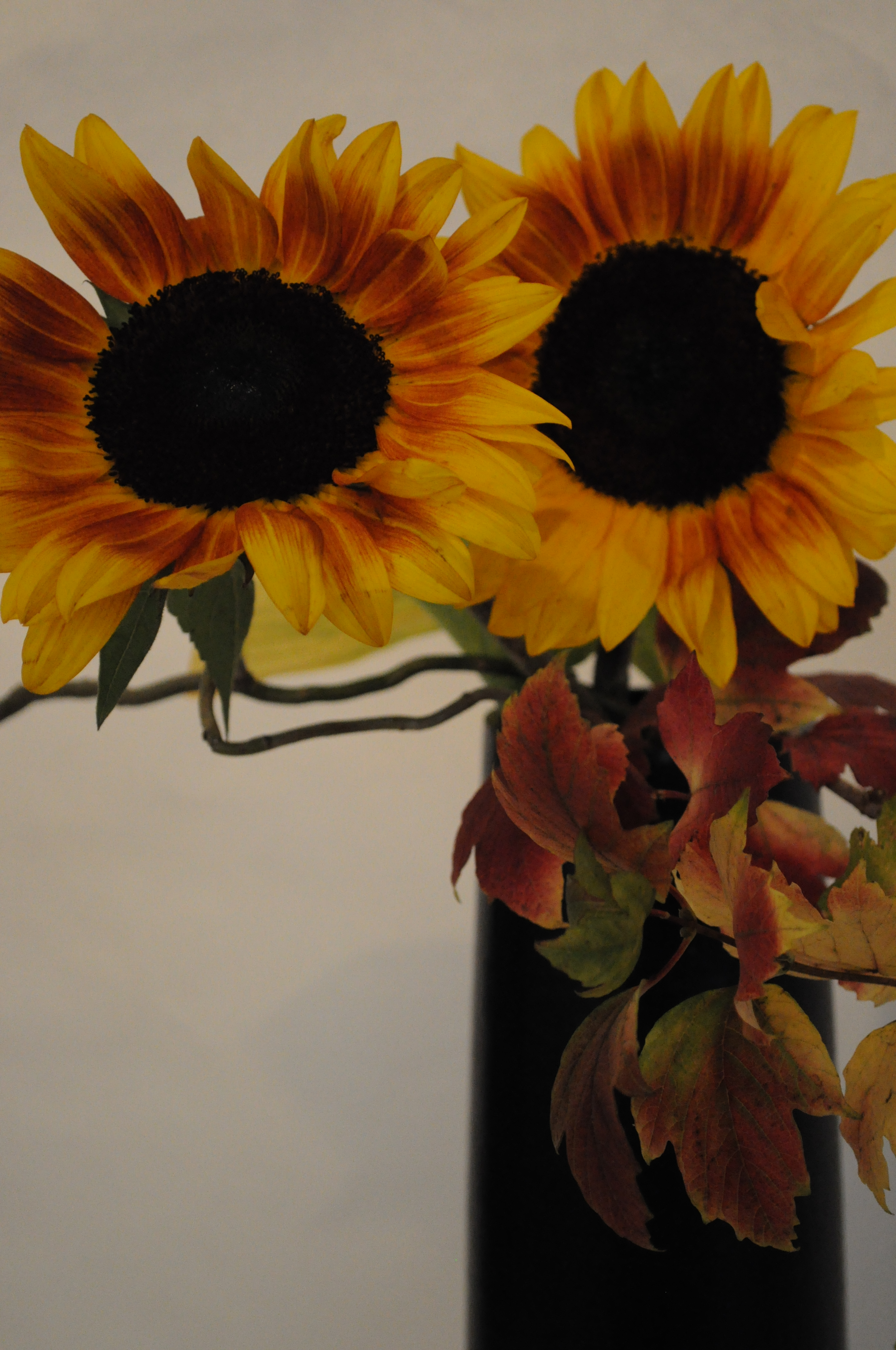 Closeup of ikebana on display at Bunka No Hi (annual Japanese Culture Day) at Seattle's Nihon Go Gakko / Japanese Cultural & Community Center.